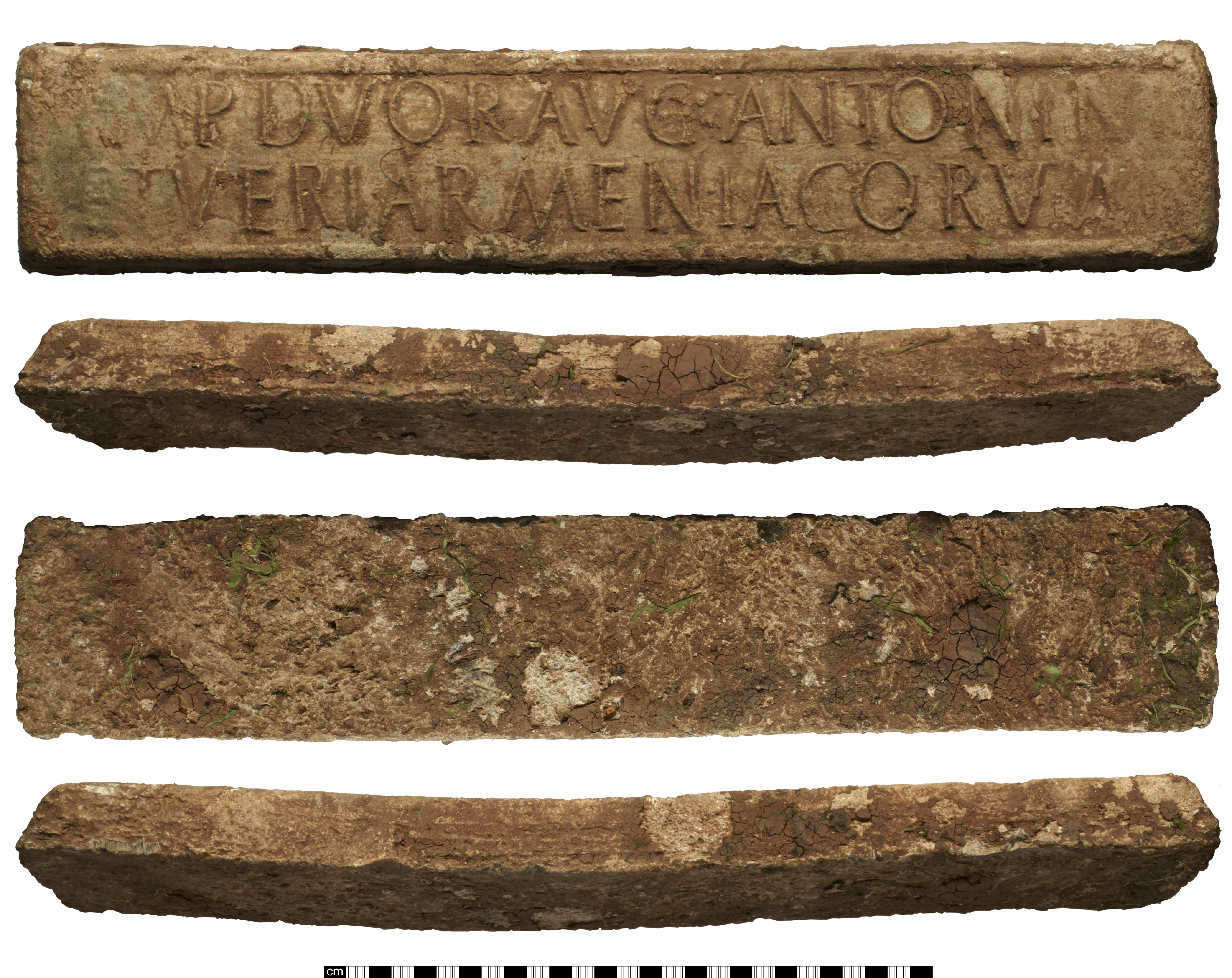 A Roman lead ingot, or "pig" dating to the period c. AD 164 - 169. The ingot is rectangular in plan and trapezoidal in cross-section. The upper surface carries the inscription in relief IMP DVOR AVG ANTONINI ET VERI ARMENIACORVM written across two lines. At either end of the ingot the letters are fainter and in lower relief than those in the centre. The lettering is slightly irregular, with the letters on the bottom row of the inscrition noticably larger and more spaced out than those on the top line. The inscription names both Marcus Aurelius and Lucius Verus who ruled as co-emperors betwen AD 161 and 169, when Verus died. The term "Armeniaci" refers to their receiving a triumphal title for capture of the Armenian capital and expulsion of a Persian client king, hence the proposed date range of c. AD 164/165 - 169. Four ingots bearing the same inscription have been previously recorded, all of which are reported to have been found in Somerset, within 18 miles of Charterhouse on Mendip, indicating that this was their point of manufacture. The first was noted by the antiquarian John Leland in about 1530 (RIB II, 2404, 20) and described as being from near Wells. A second example was recorded by the antiquarian William Stukely in Intererarium Curiosaum (1753, P. 143) as having been found whilst digging a post hole near Bruton in Somerset. Both of these ingots are now lost. Two fragments, probably from two separate ingots, were found in Town Field, Charterhouse around 1874 and are currently on display in the Museum of Somerset. Both fragments bear traces of the same moulded lettering as this example, however, both fragments are notably thinner. The ingot measures 521.6mm in length and 96.7mm in width. It varies in thickness from 36.94mm at one end to 42.03mm at the other end. It weighs c.19.3kg. The ingot is noticeably bowed in profile towards the centre. Stratification of the layers is visible on all sides. The lead has a thick, off-white patina.